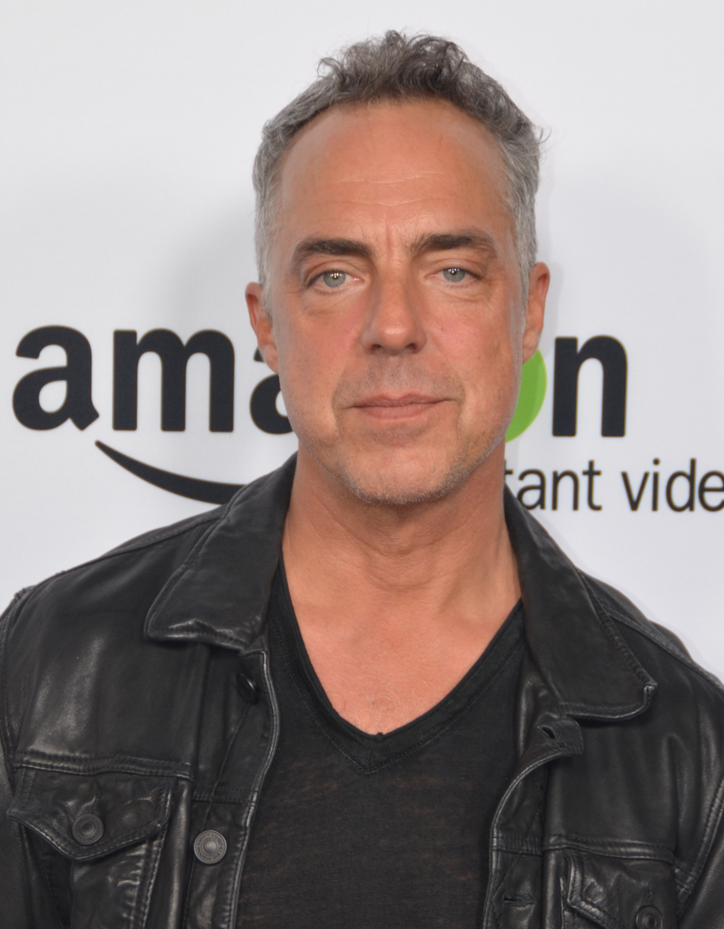 Titus Welliver (cropped)